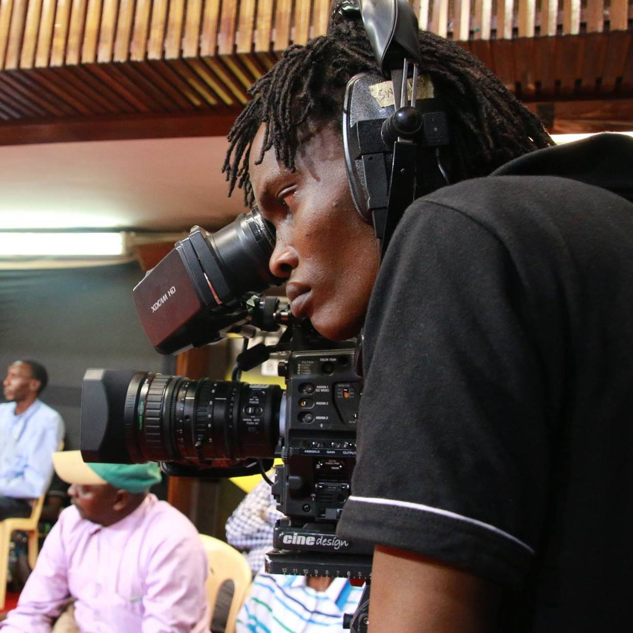 This is an image of "African people at work" from Kenya